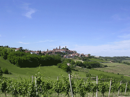 General view of the Italian town of Lu (province of Alessandria)